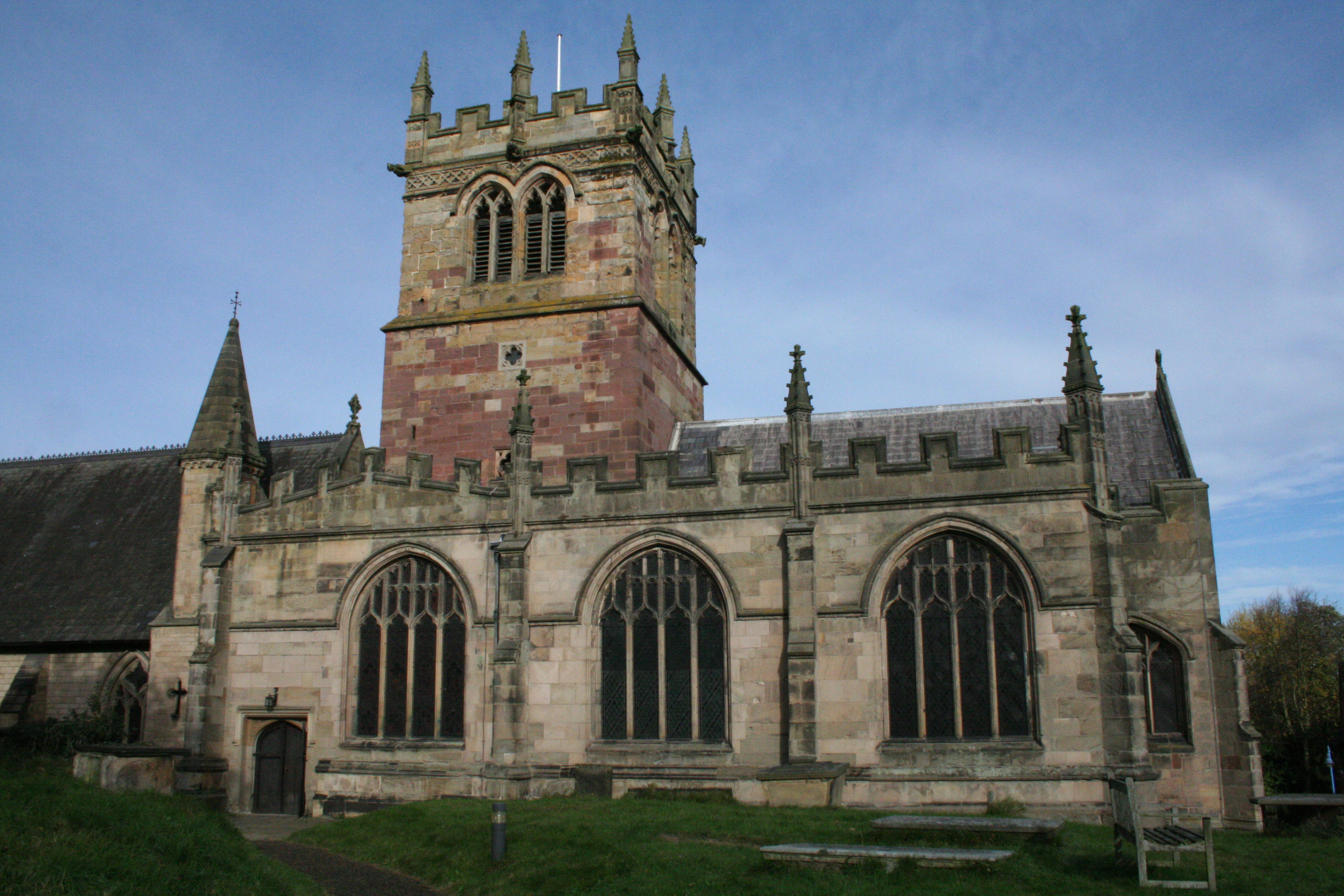 Photograph of St Mary's Church, Ellesmere